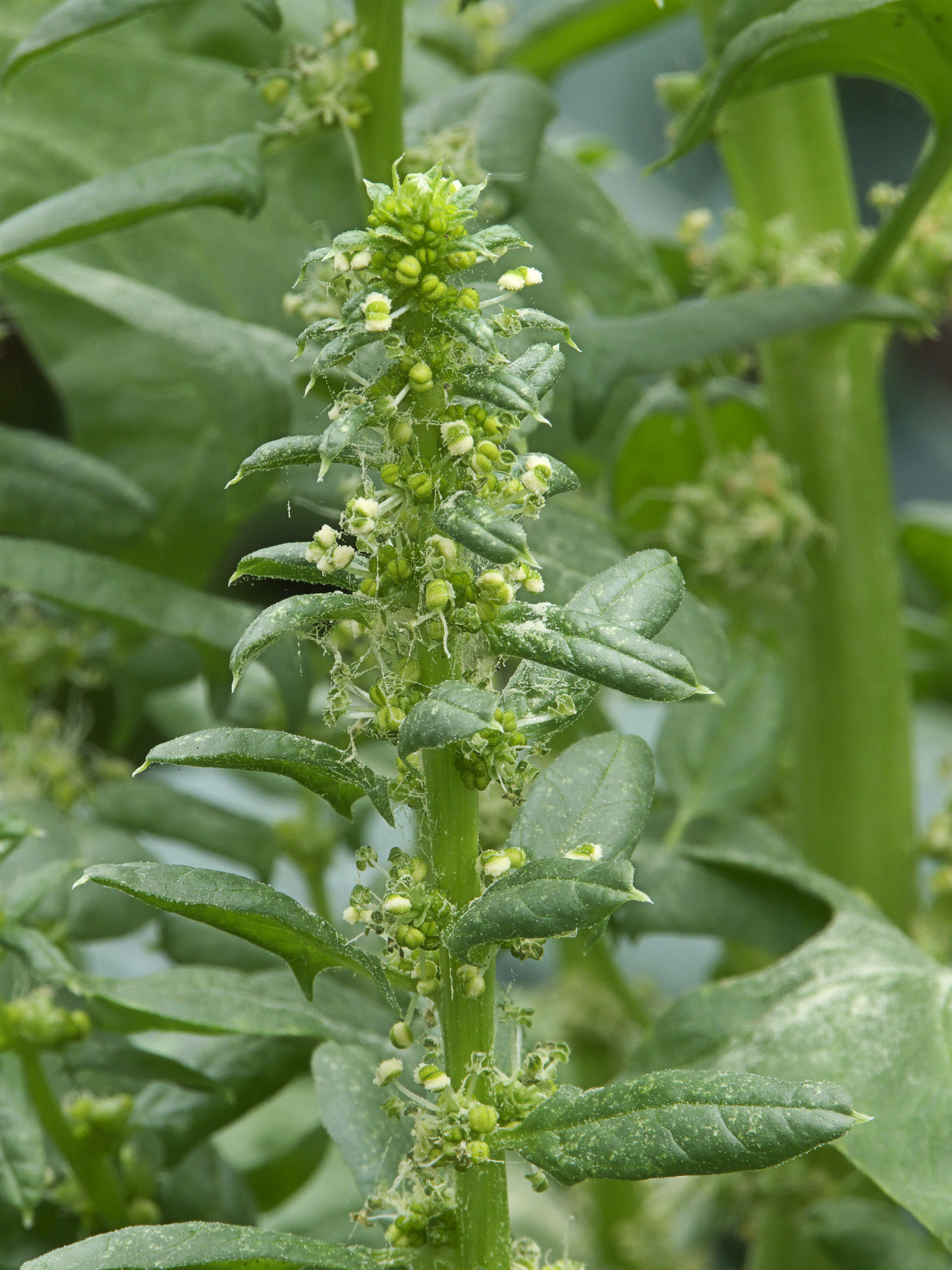 Spinacia oleracea male flowers